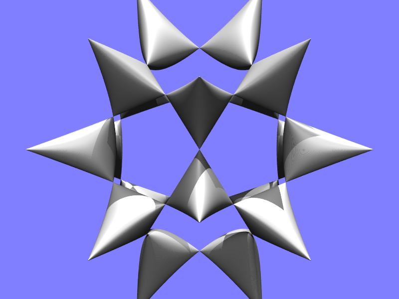 The Barth Sextic is the sextic equation with the highest possible number of ordinary double points (65)